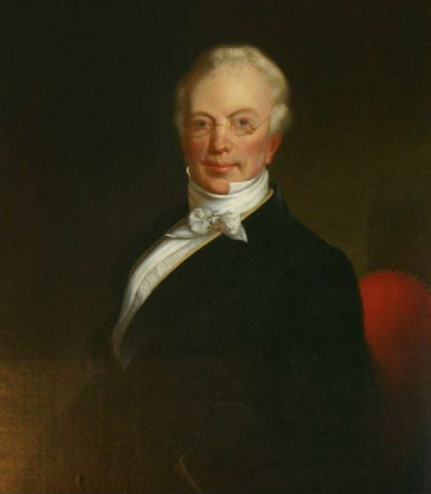 John I. DeGraff, Schenectady Mayor, U.S. Congressman